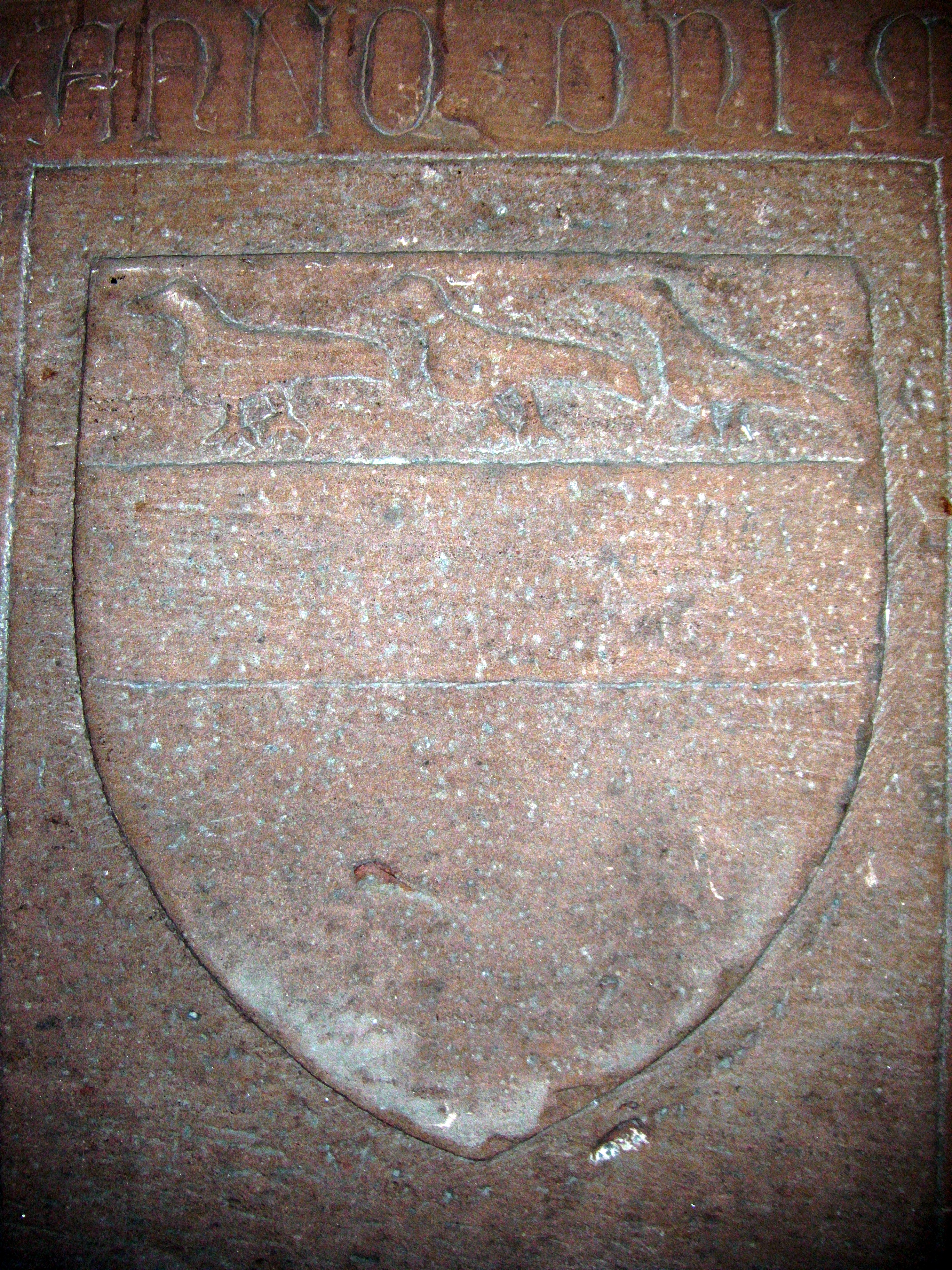 Wappen der Adelsfamilie "von Wachenheim", 1373, Andreasstift Worms